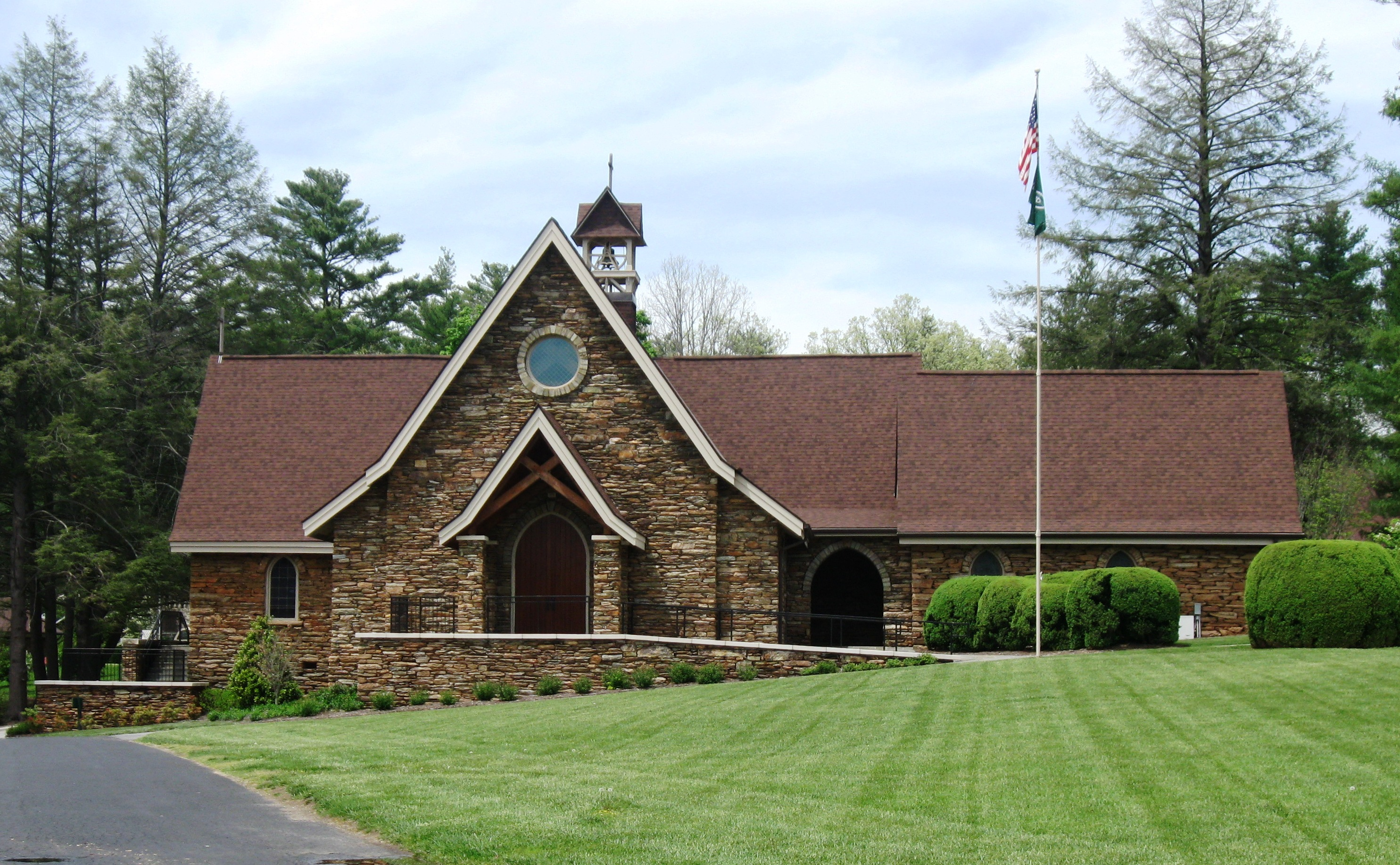 Campus wiki